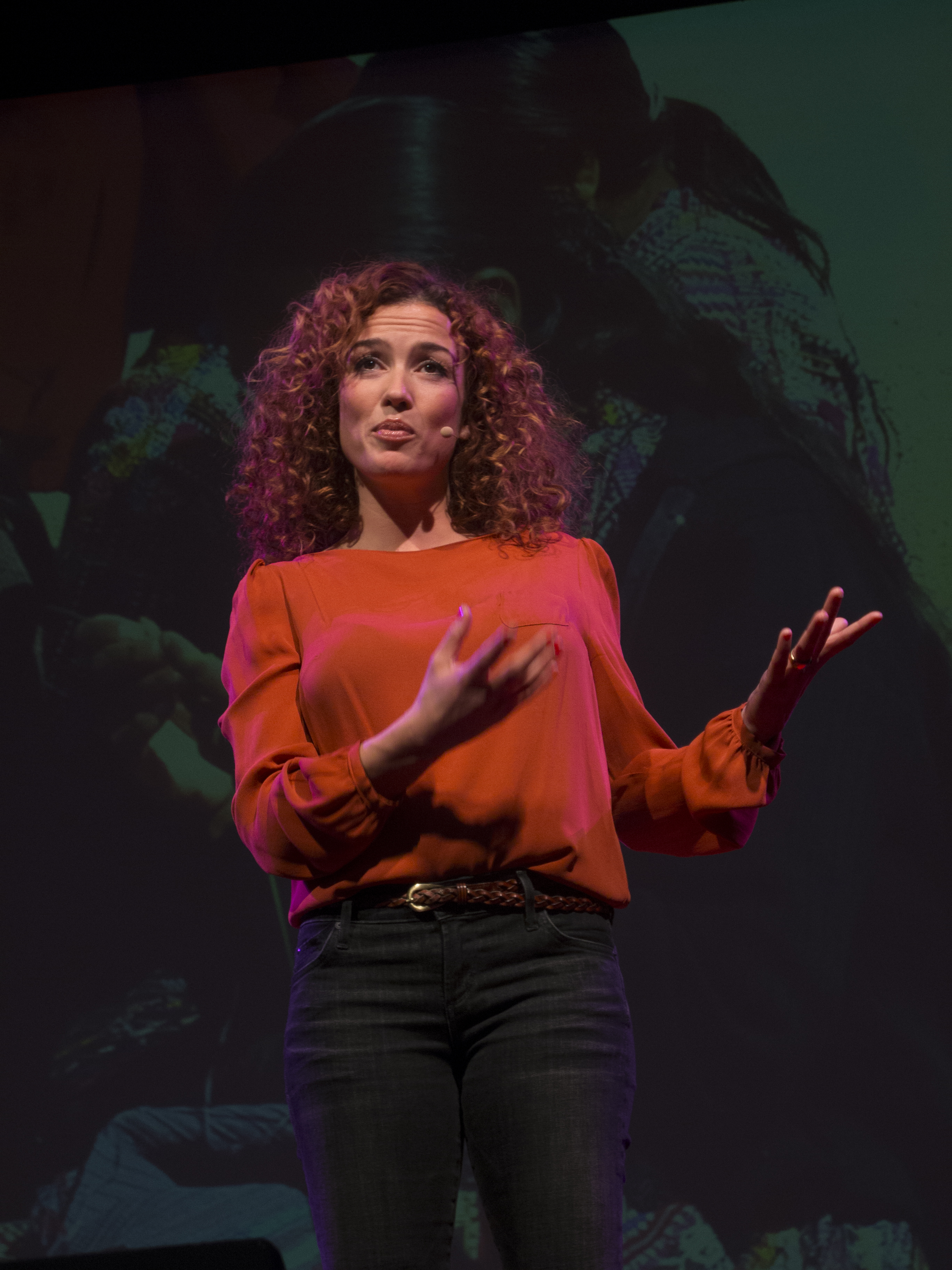 Katja Schuurman speaking at TEDxAmsterdam 2012